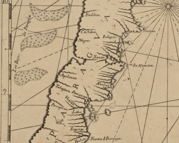 Los Bajos de Paragua, detail in Carta Hydrographica y Chorographica de las Yslas Filipinas (1734). "Paragua" is an archaic name for Palawan in the Philippines. "Los Bajos de Paragua" refers to the Spratly Islands then named as part of Palawan.